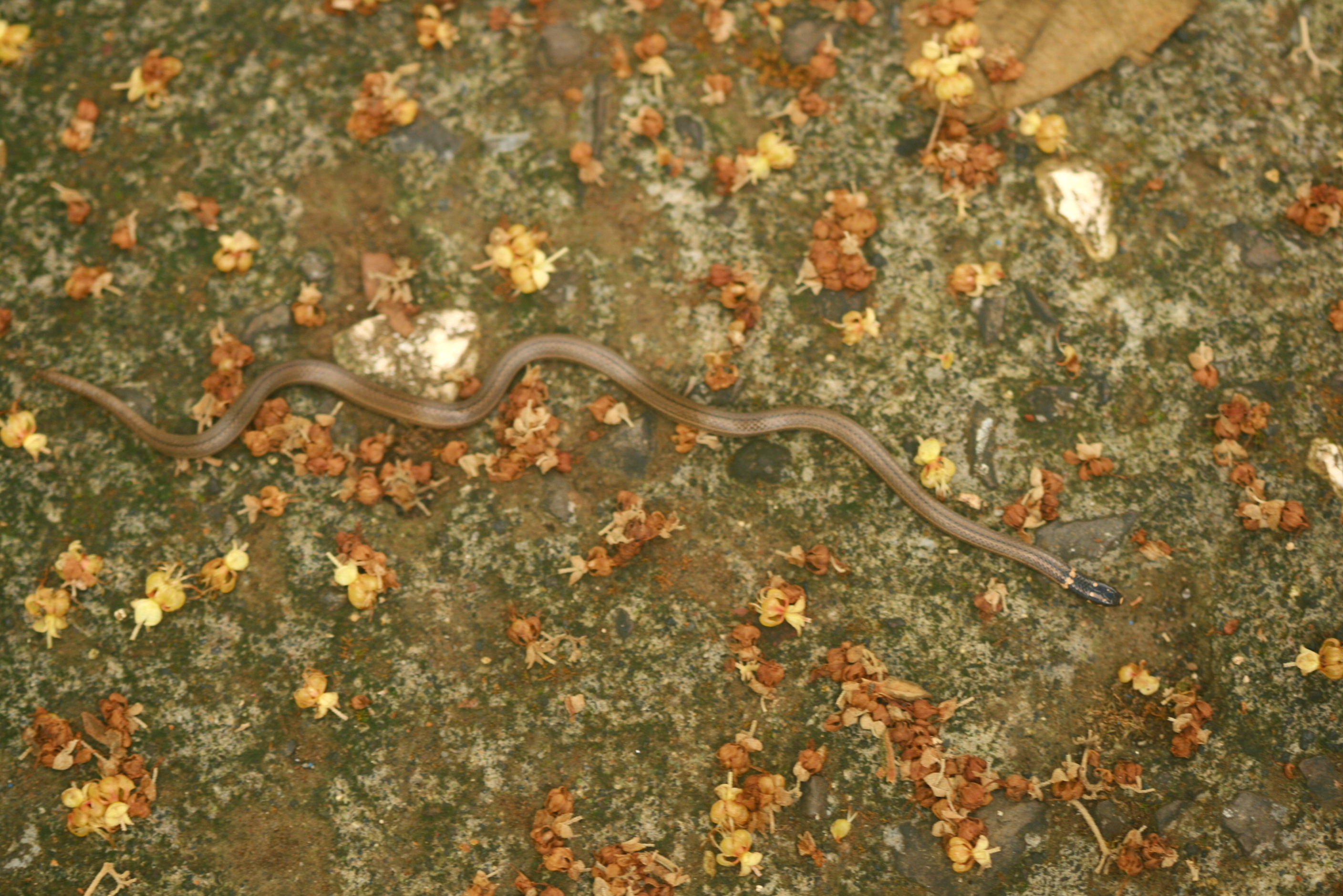 Tantilla armillata. Potrero, Guanacaste, Costa Rica. May 2017. ©Sébastien Berasaluce